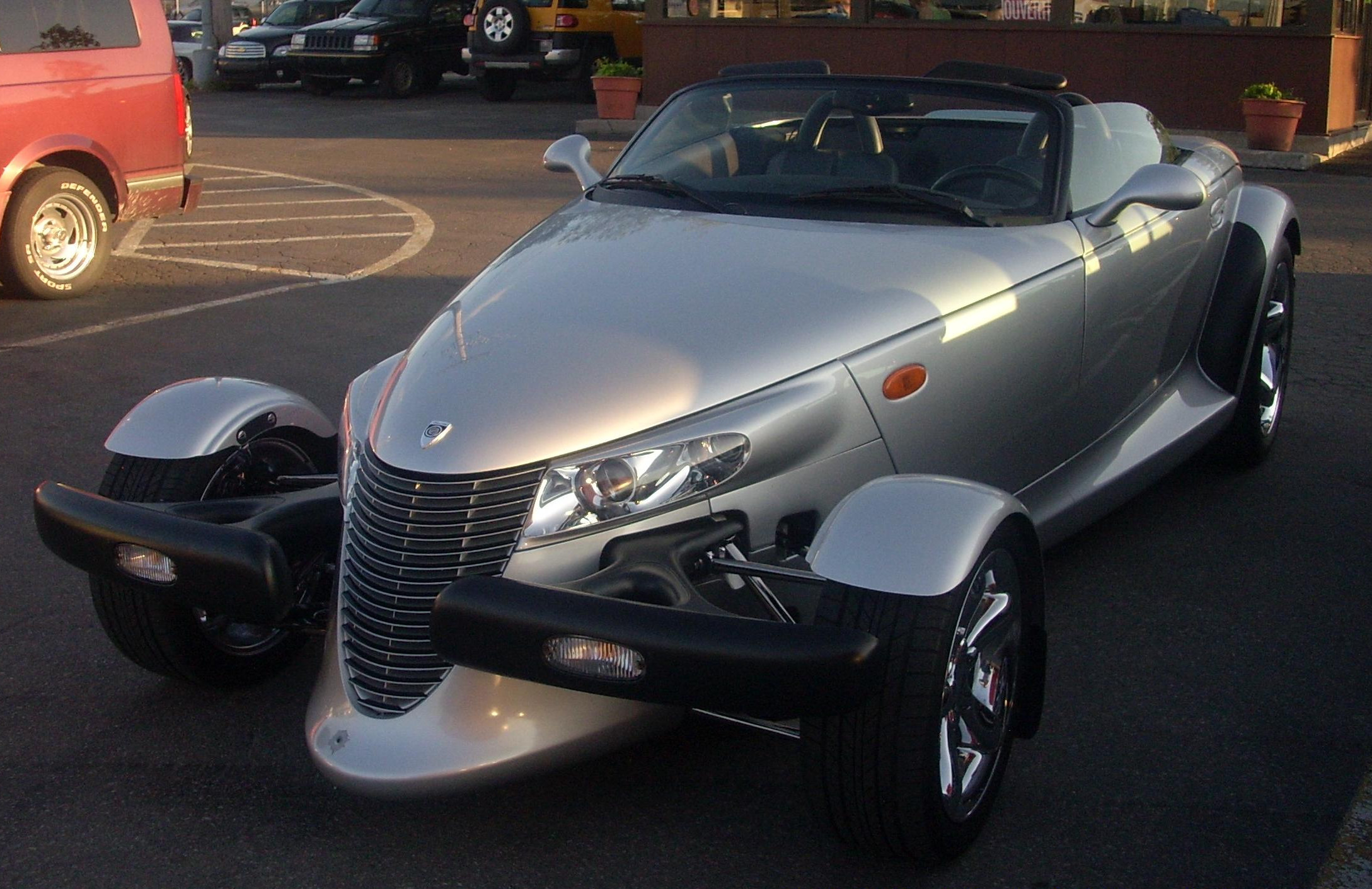 2001-2002 Chrysler Prowler photographed in Montreal, Quebec, Canada at Gibeau Orange Julep.